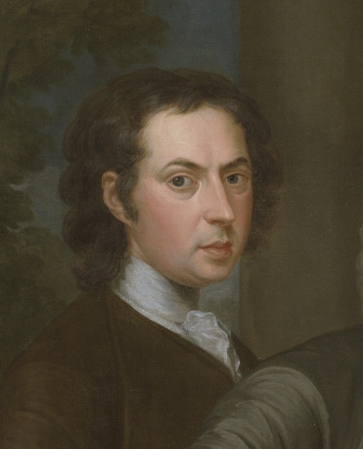 Self-portrait by John Smibert; detail from: The Bermuda Group (Dean Berkely and His Entourage).